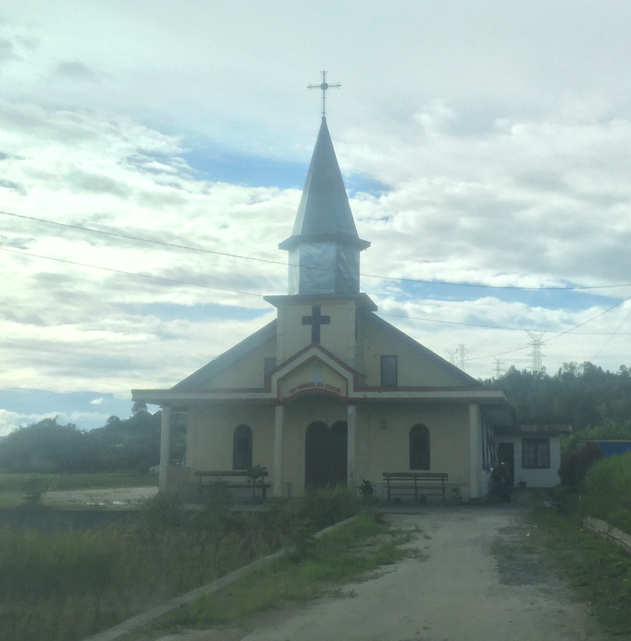 HKBP Sosunggulon, church in sosunggulon, tarutung, north tapanuli